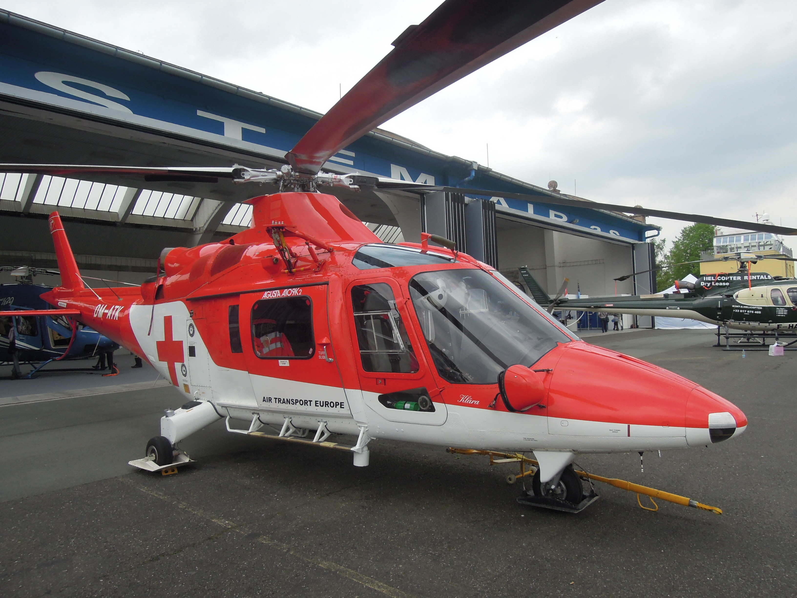 Rescue helicopter AgustaWestland AW109K2 of Air – Transport Europe company, photo was taken during the 2013 European Helicopter Show in Hradec Králové, Czech Republic